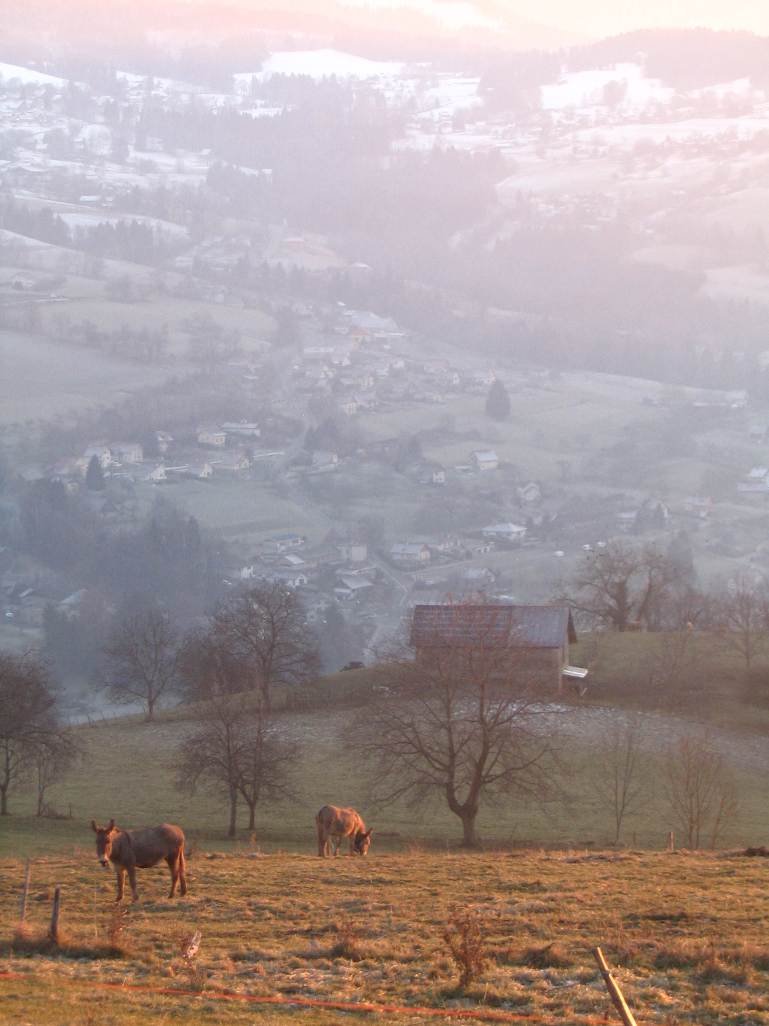 Above the village of Theys (France)